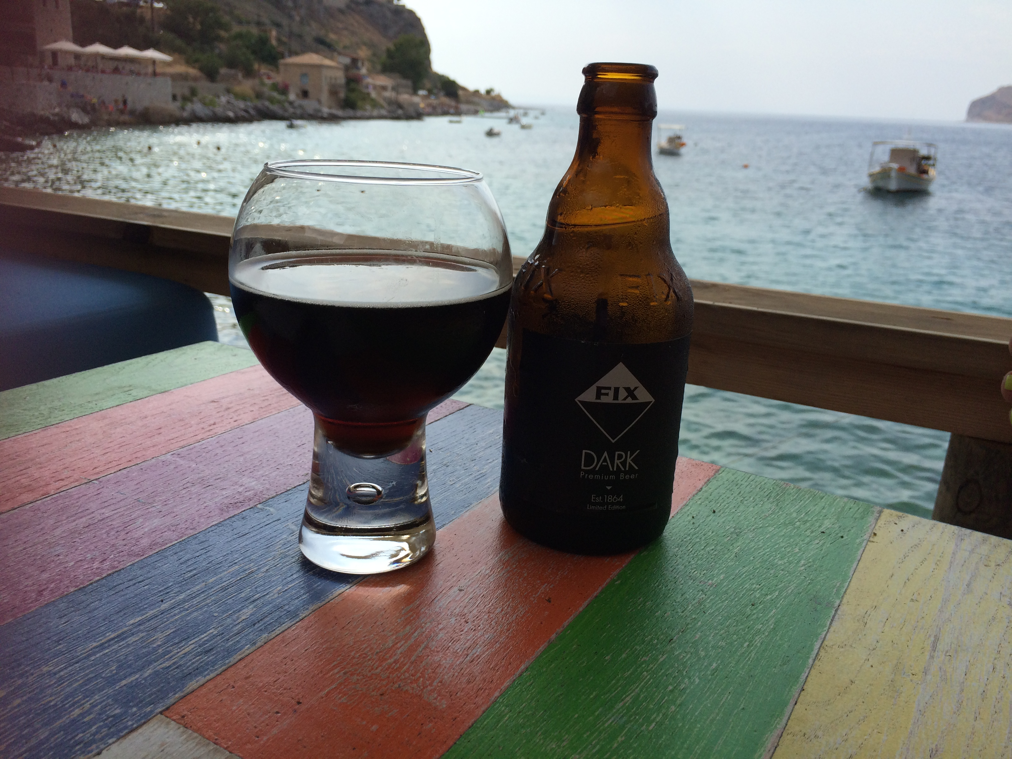 Having a beer at Limeni